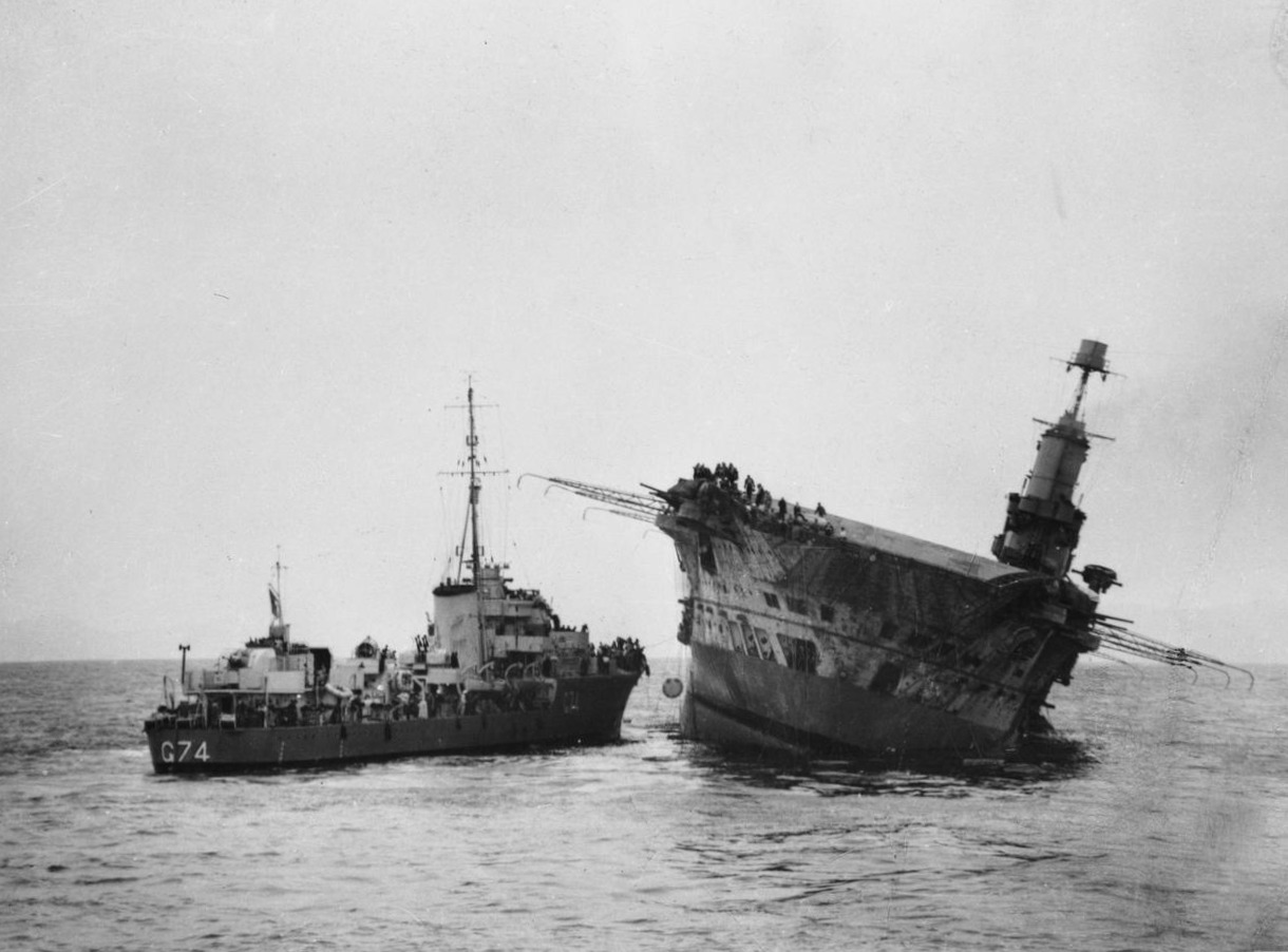 IWM caption : View from HMS HERMIONE of HMS LEGION moving alongside the damaged and listing HMS ARK ROYAL in order to take off survivors. The aircraft carrier was torpedoed by the German U-boat U 81 off Gibraltar. HMS ARK ROYAL sank the following day.